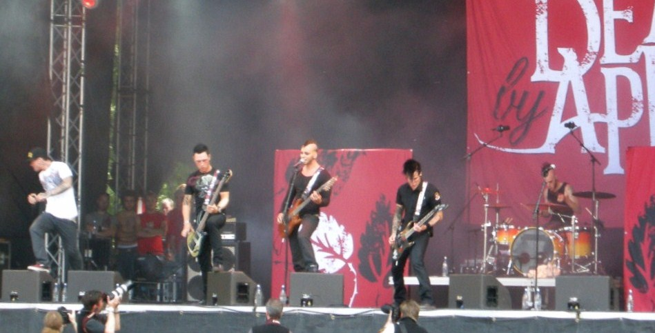 Dead by April at Sonisphere Festival, Hultsfred, Sweden 2009